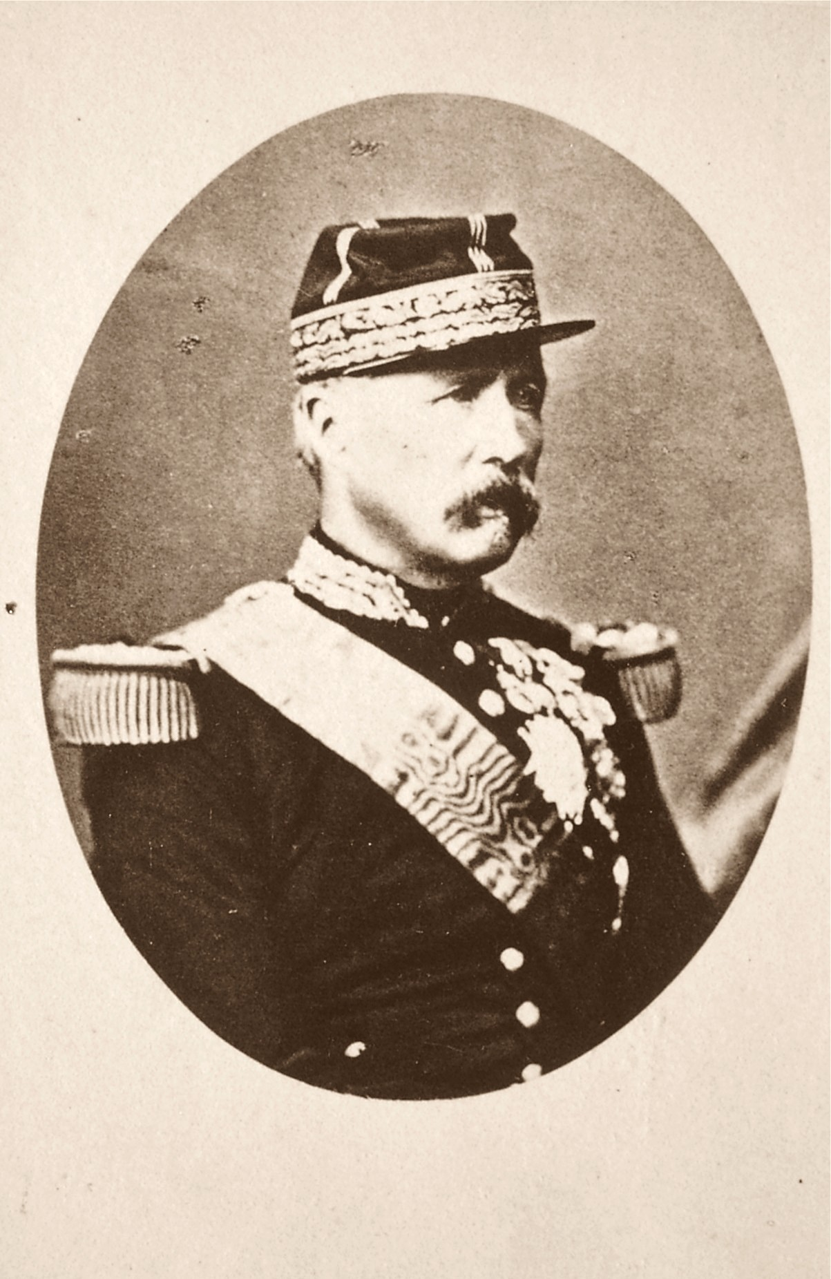 Patrice de Mac-Mahon, Marchal of France